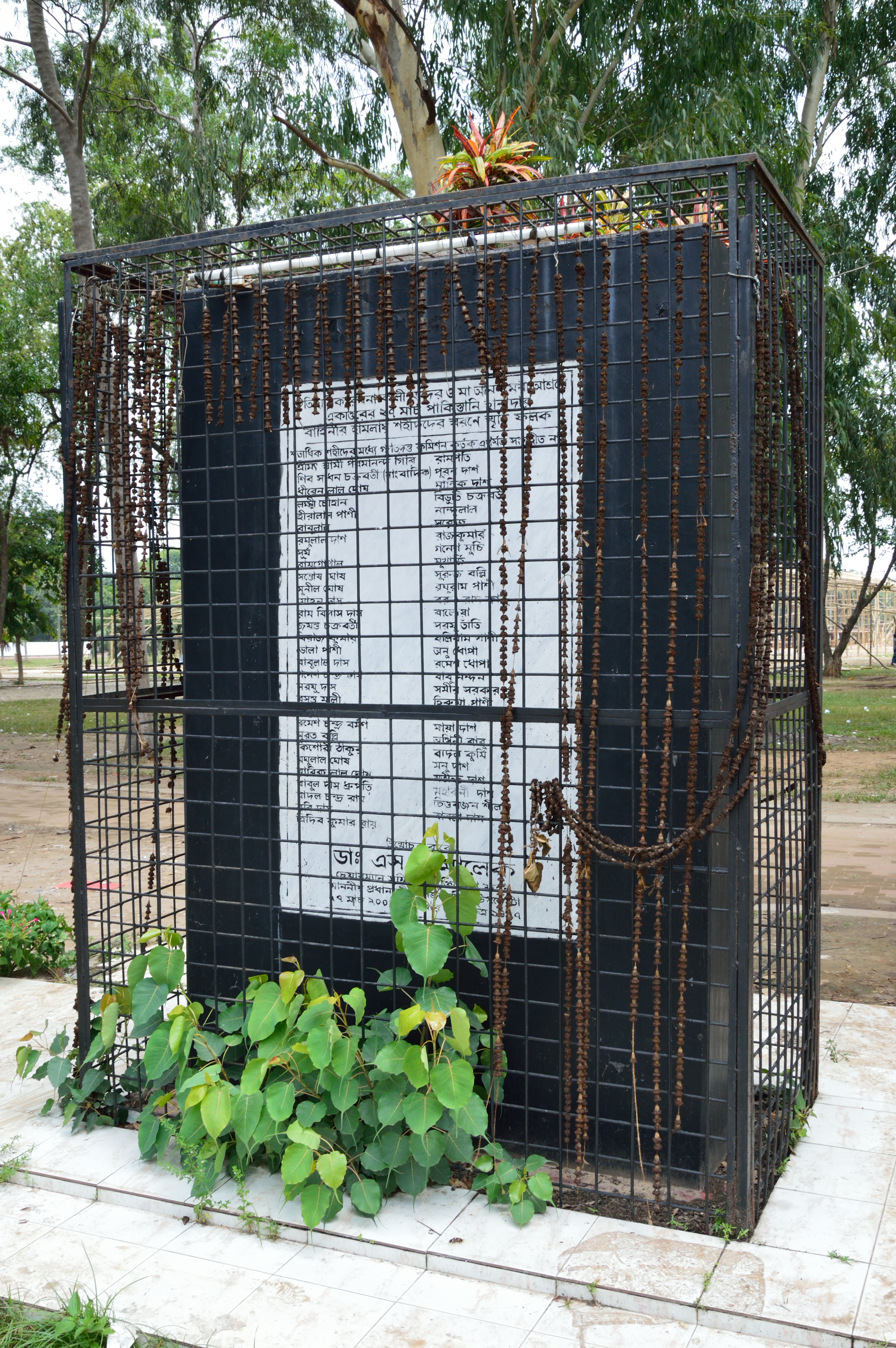 Photographed in Dhaka, Bangladesh.